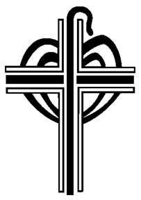 Coat of Arms of the Congregation of Our Lady of Charity of the Good Shepherd (also known as Sisters of the Good Shepherd)